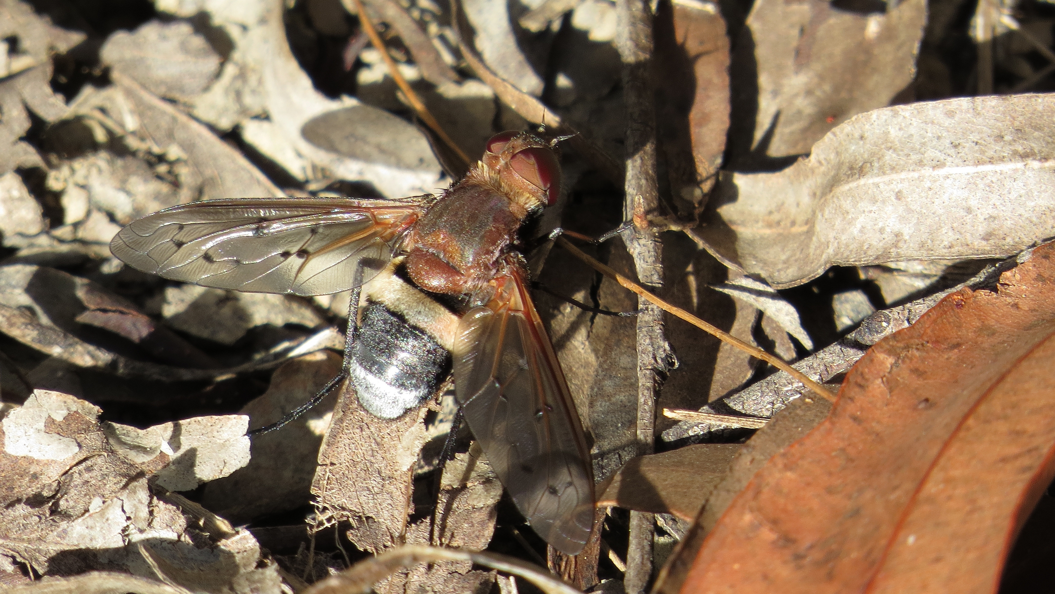 Bee Fly, Ligyra punctipennis, with a white bum. Mount Jerusalem National Park, Koonyum Range, NSW, Australia, December 2014. This is similar in appearance to Ligyra bombyliformis. However, from what I can see, in Ligyra punctipennis... Abdomen has first tergite black with yellow lateral hairs Second tergite wholly covered in yellow hairs Third and Fourth tergites with black hairs and scales. Tergites 5-7 have white scales and black hairs. (To me the fifth tergite is silvery black.) The black cross-bands on the third and fourth tergites separate this species from others. The wings are yellowish brown close to the body and nearly hyaline away from the body towards the trailing edge. There are 9 small distinct dark spots at vein crossing points. There are 4 submarginal cells. The first posterior cell is open, its veins do not meet before the wing edge. See Paramonov, S.J. 1967. A review of the Australian species of Ligyra Newman (Hyperalonia olim) (Bombyliidae: Diptera). Australian Journal of Zoology 15: 123-144.[133]. Note, in this paper, Ligyra punctipennis was first described as Ligyra contrasta.